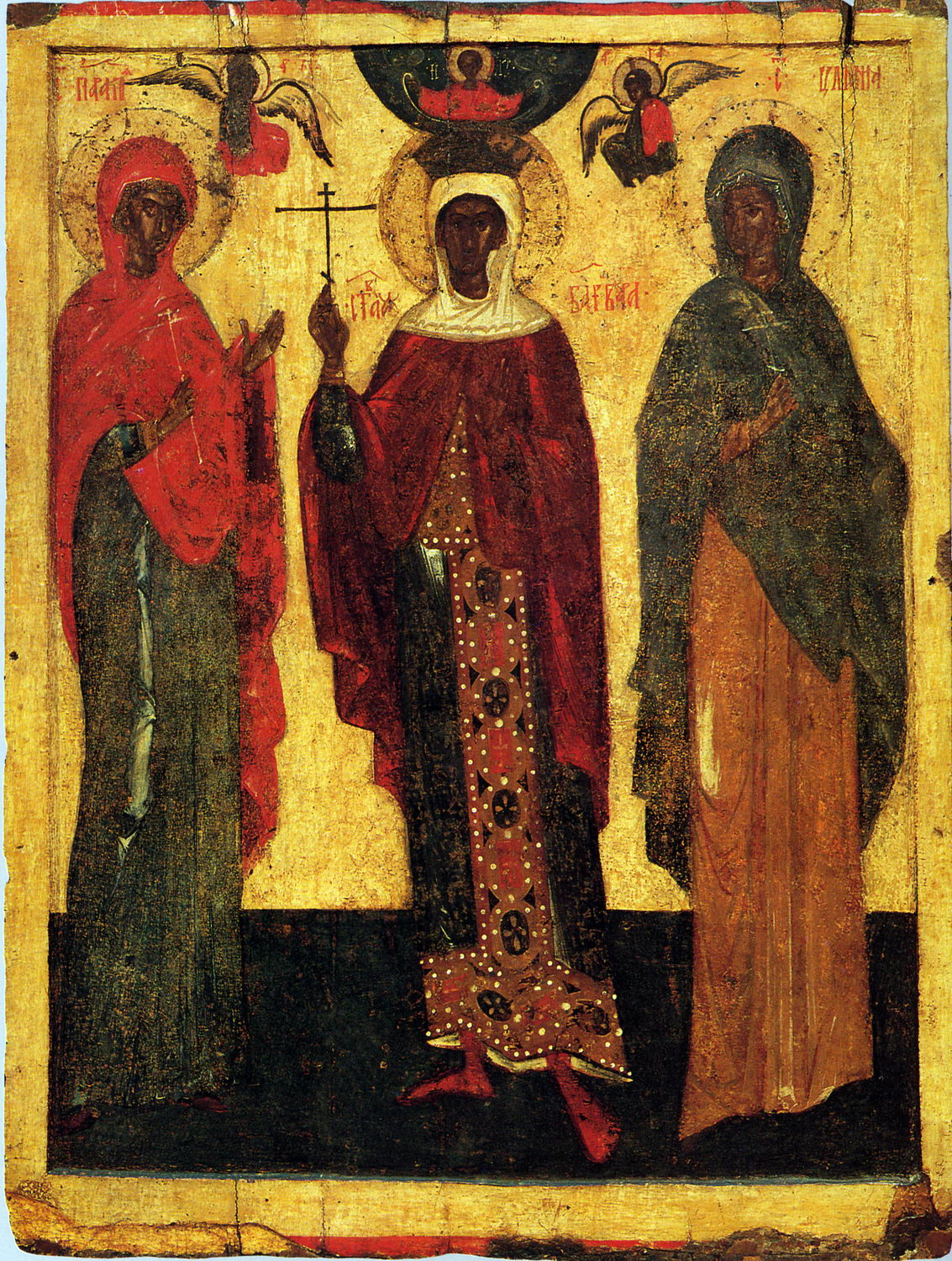 Ss. Paraskeva, Barbara and Uliana